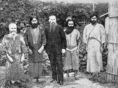 John Batchelor (1854-1944) - English missionary in Japan